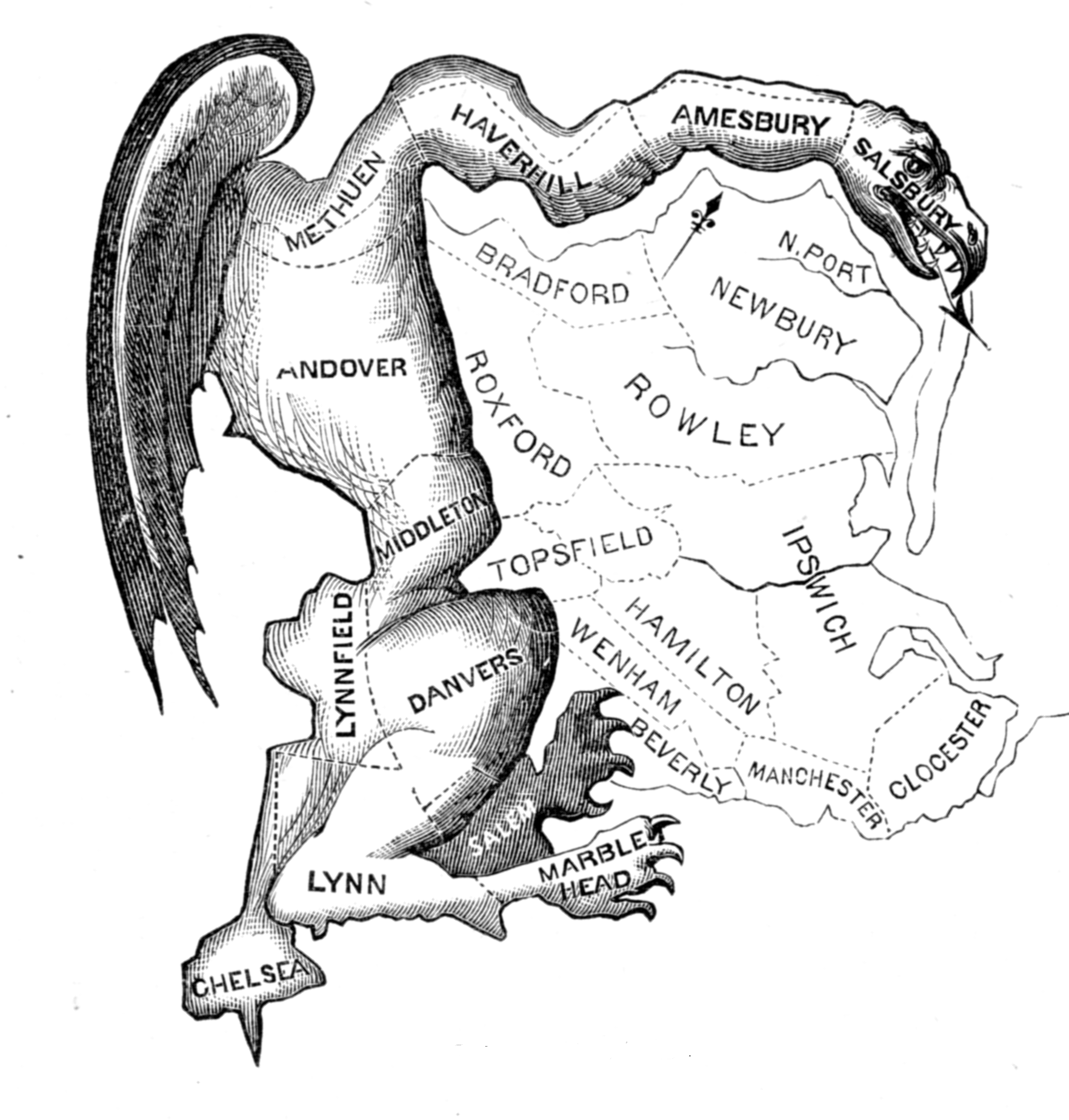 Original cartoon of "The Gerry-Mander", this is the political cartoon that led to the coining of the term Gerrymander. The district depicted in the cartoon was created by Massachusetts legislature to favor the incumbent Democratic-Republican party candidates of Governor Elbridge Gerry over the Federalists in 1812.